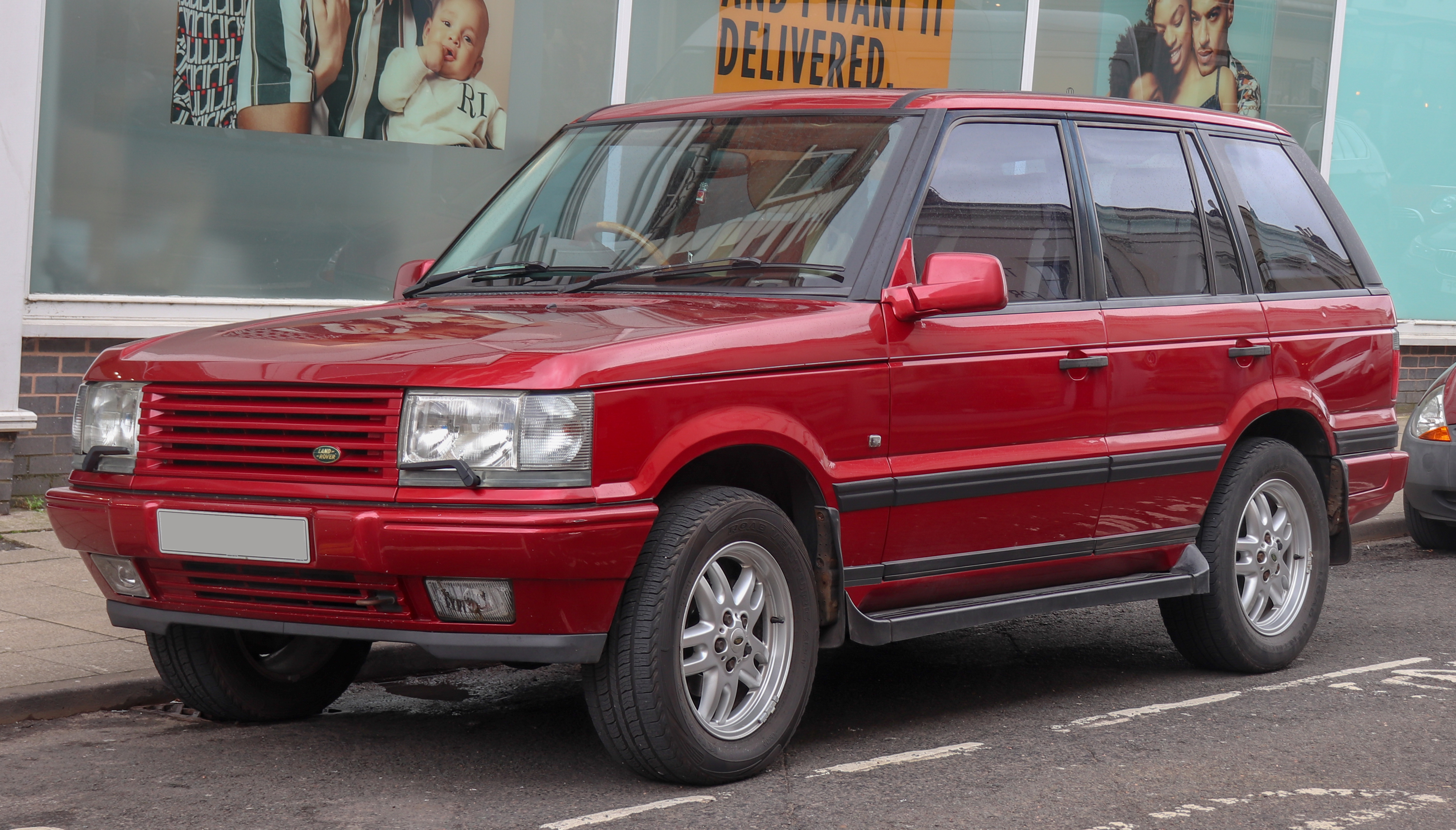 1998 Land Rover Range Rover Limited Edition Autobiography 4.6 Front Taken in Leamington Spa